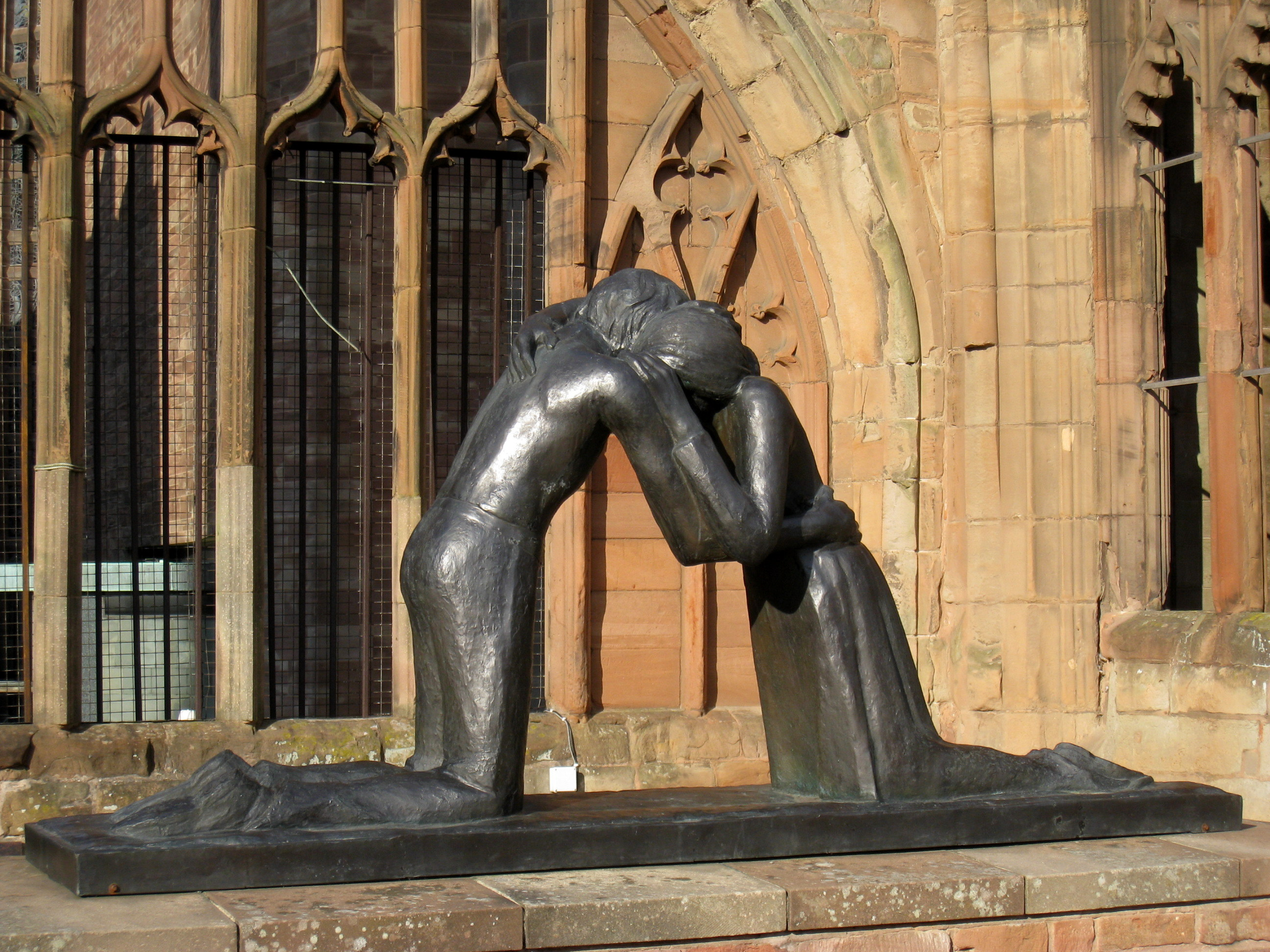 The sculpture Reconciliation by Vasconcellos showing two former enemies embracing each other. It was erected in 1995 in the north aisle of the ruins of St Michael's Cathedral, Coventry. (Destroyed during fire bombs during the Coventry Blitz on 14 November 1940). The text on the pedestal is in English and in Japanese. The English text reads: In 1995, 50 years after the end of the Second World War this sculpture by Josefina de Vasconcellos has been given by Richard Branson as a token of reconciliation. An identical sculpture has been placed on behalf of the people of Coventry in Peace Garden, Hiroshima, Japan. Both statues remind us that in the face of destructive forces, human dignity and love will triumph over disaster and bring nations together in respect and peace.